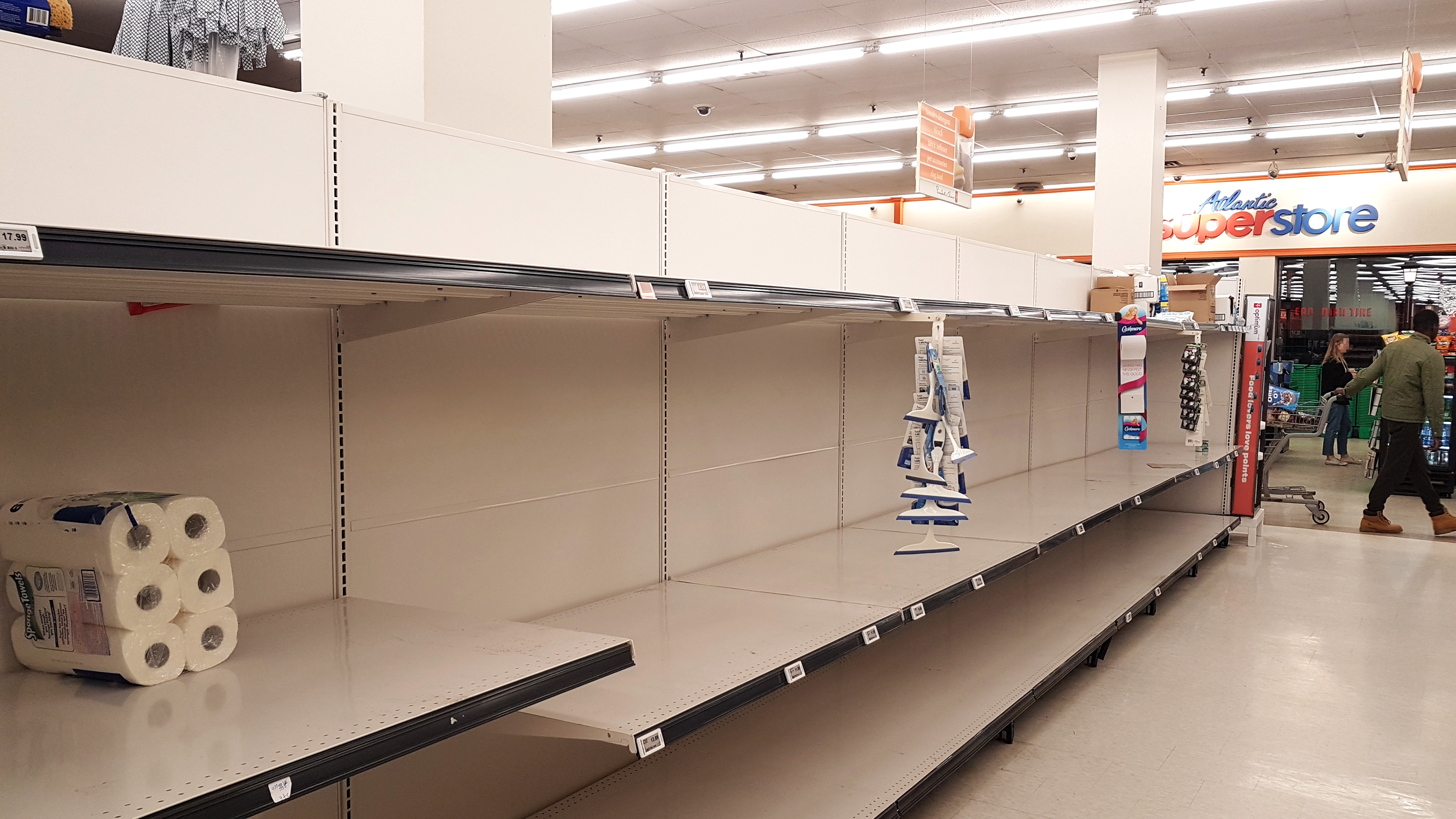 Empty shelves in the toilet paper aisle of an Atlantic Superstore supermarket of Halifax, Nova Scotia, Canada, on 12 March 2020 due to panic buying related to the COVID-19 and coronavirus outbreak.